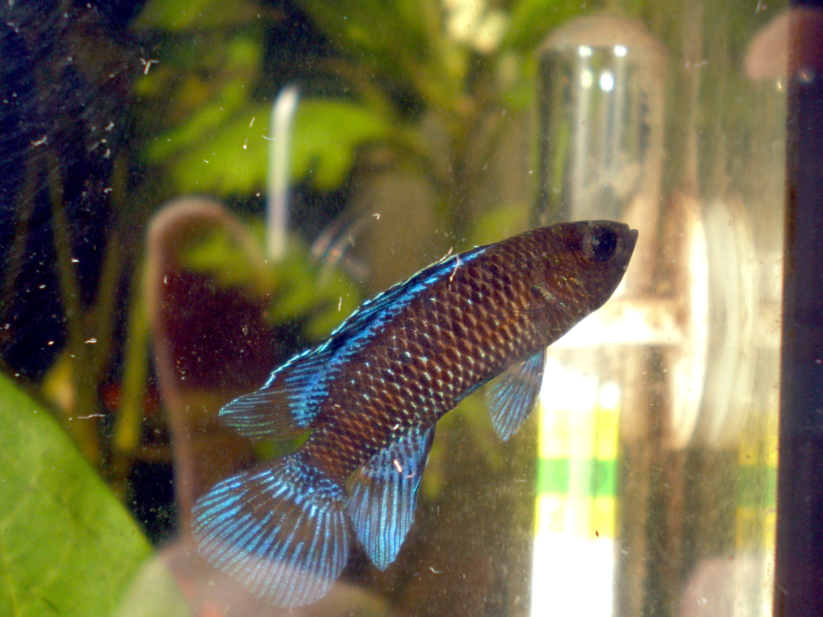 A male blue perch (Badis badis).